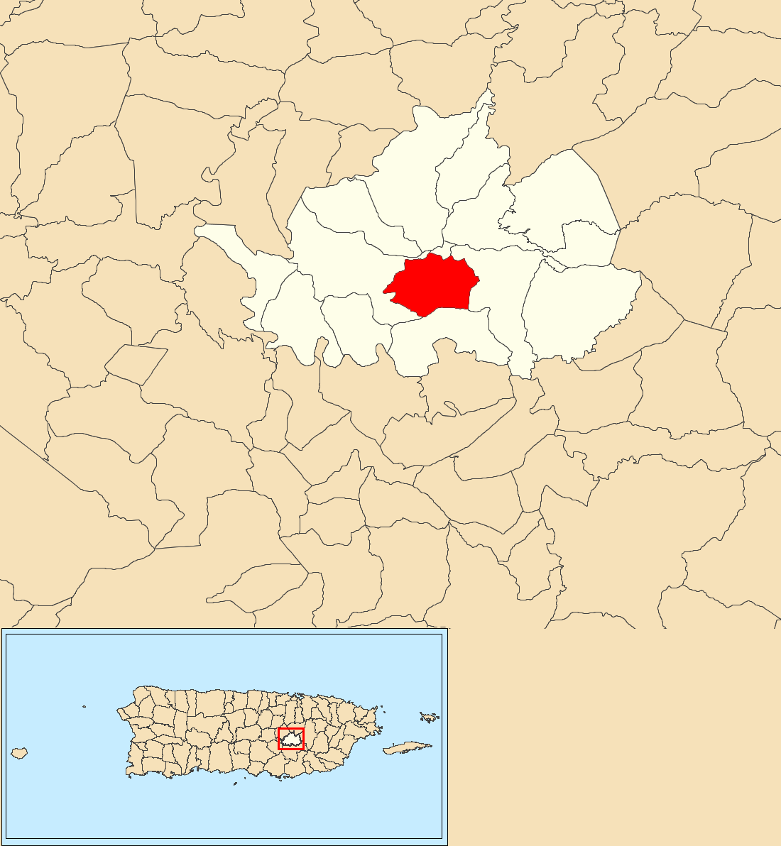 Sud, Cidra, Puerto Rico locator map